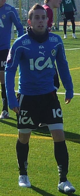 José Zamora in 2011 while on loan at Halmstads BK